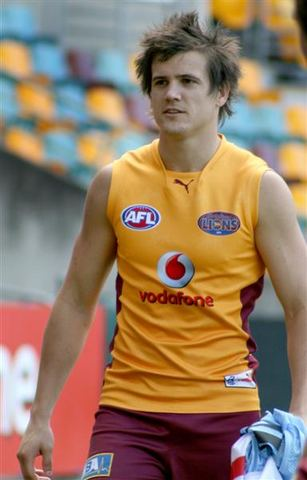 Jed Adcock at a Brisbane Lions public training session in 2008.